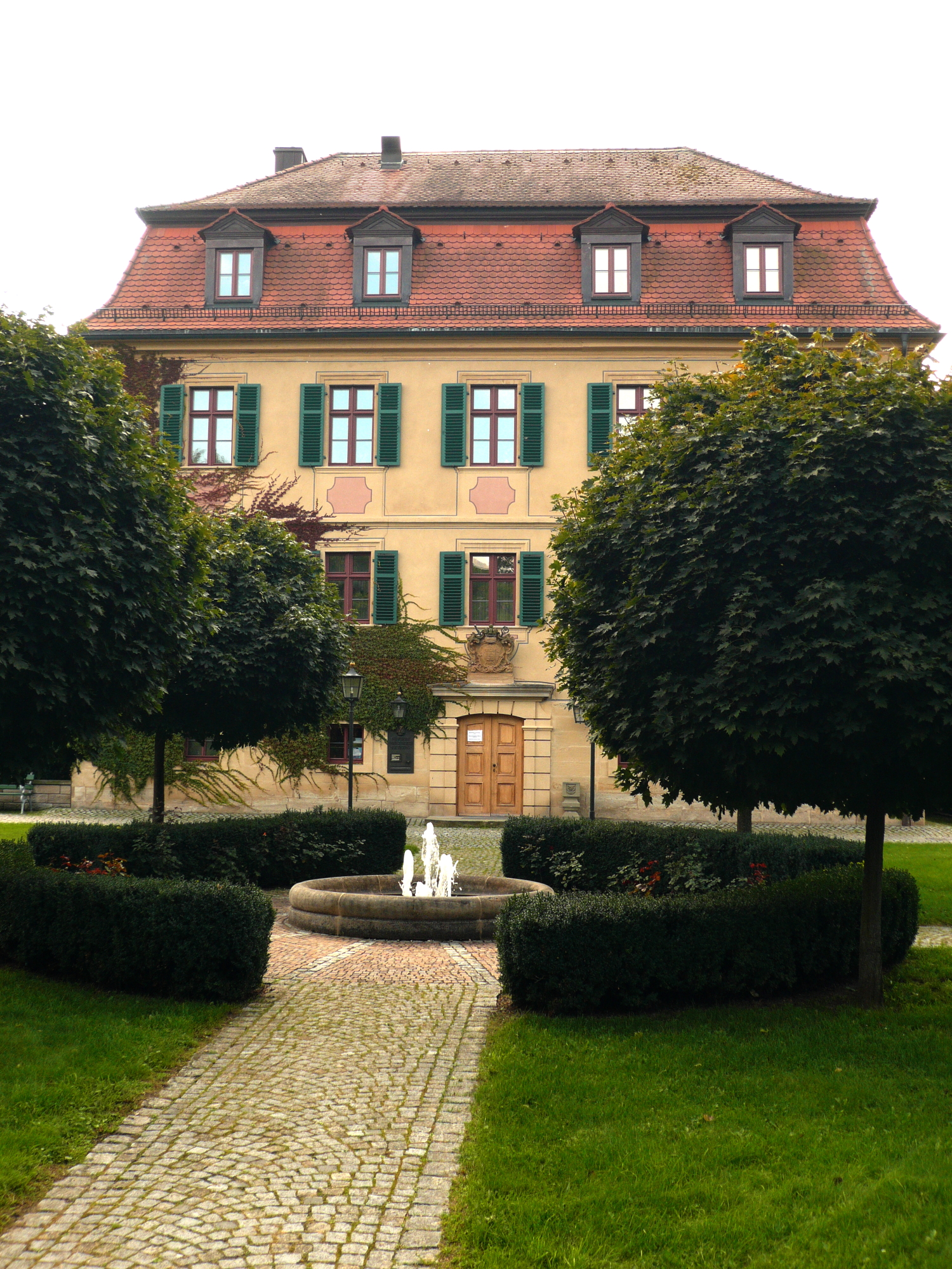 Baroque castle of Tretzendorf, today townhall of Oberaurach